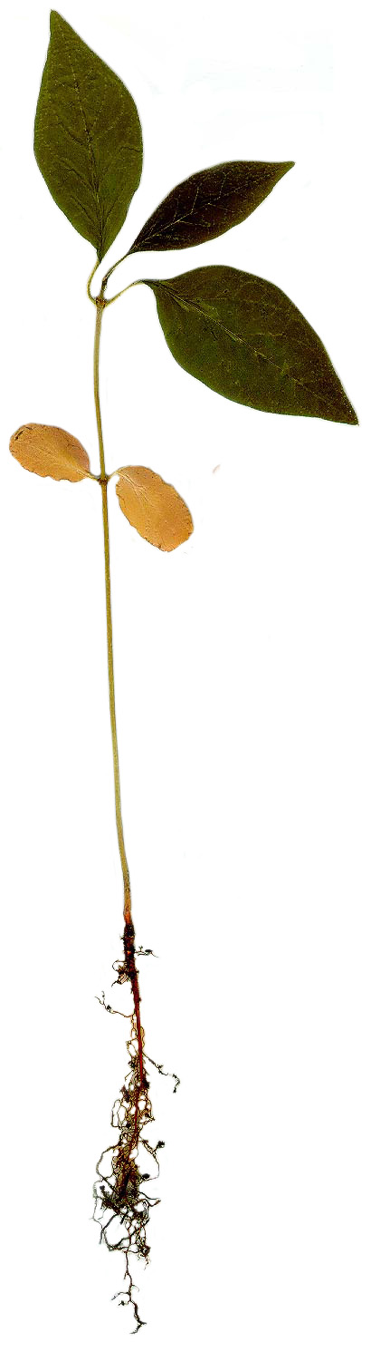 Maclura pomifera seedling